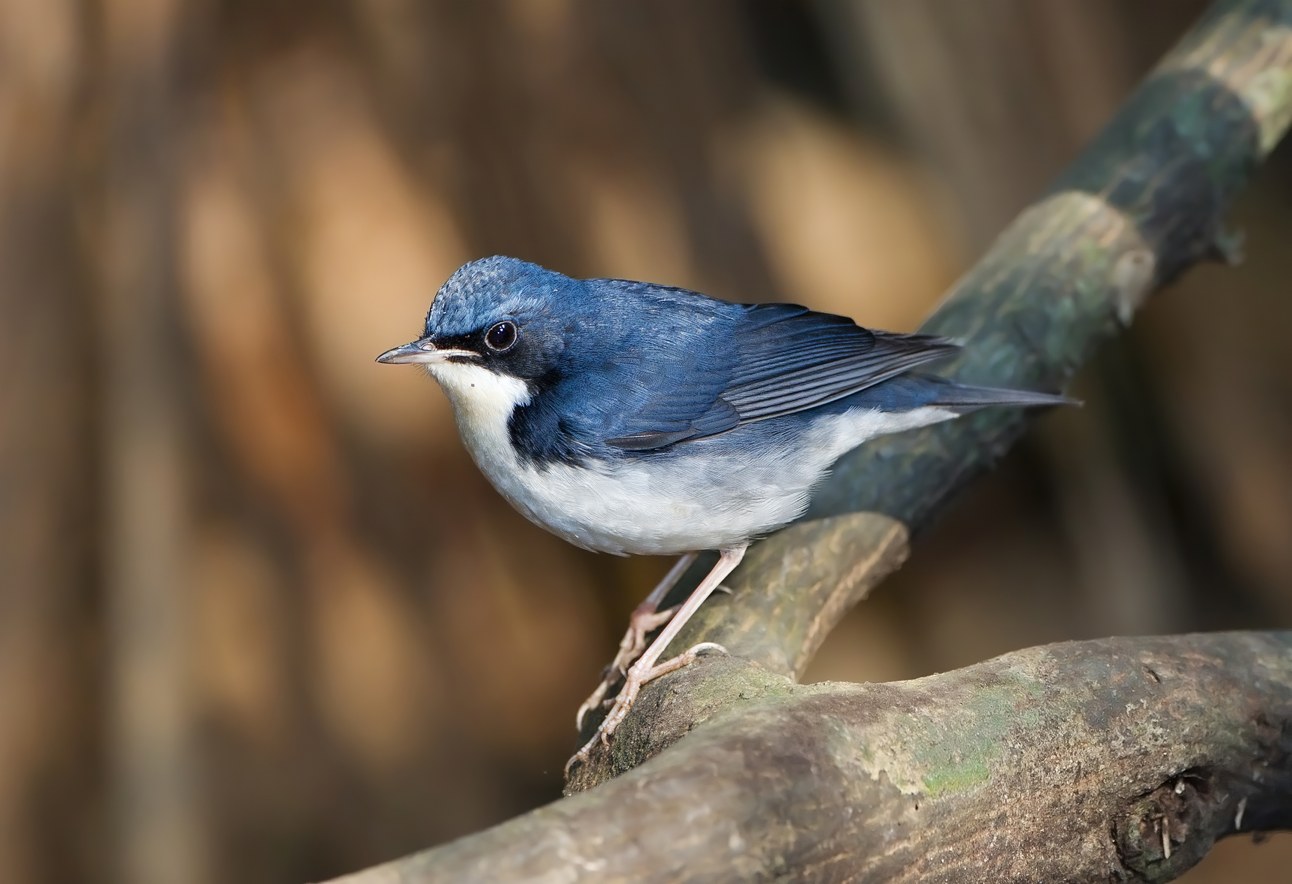 Siberian Blue Robin (Luscinia cyane), Khao Yai National Park, Nakhon Ratchasima, Thailand